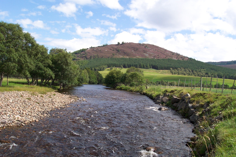 River Dee near Braemar, Aberdeenshire.